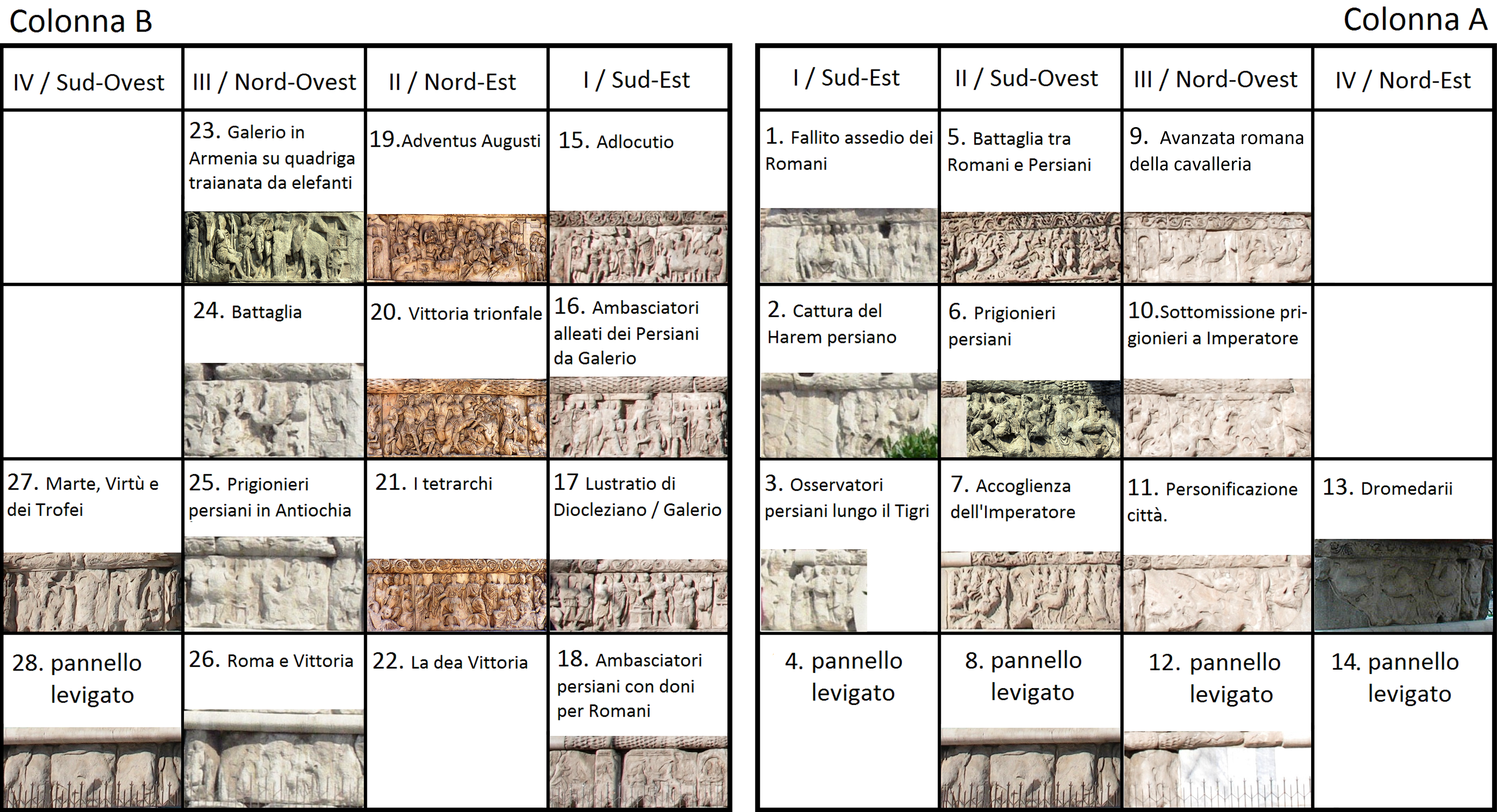 Reconstruction of the Arch of Glaerius